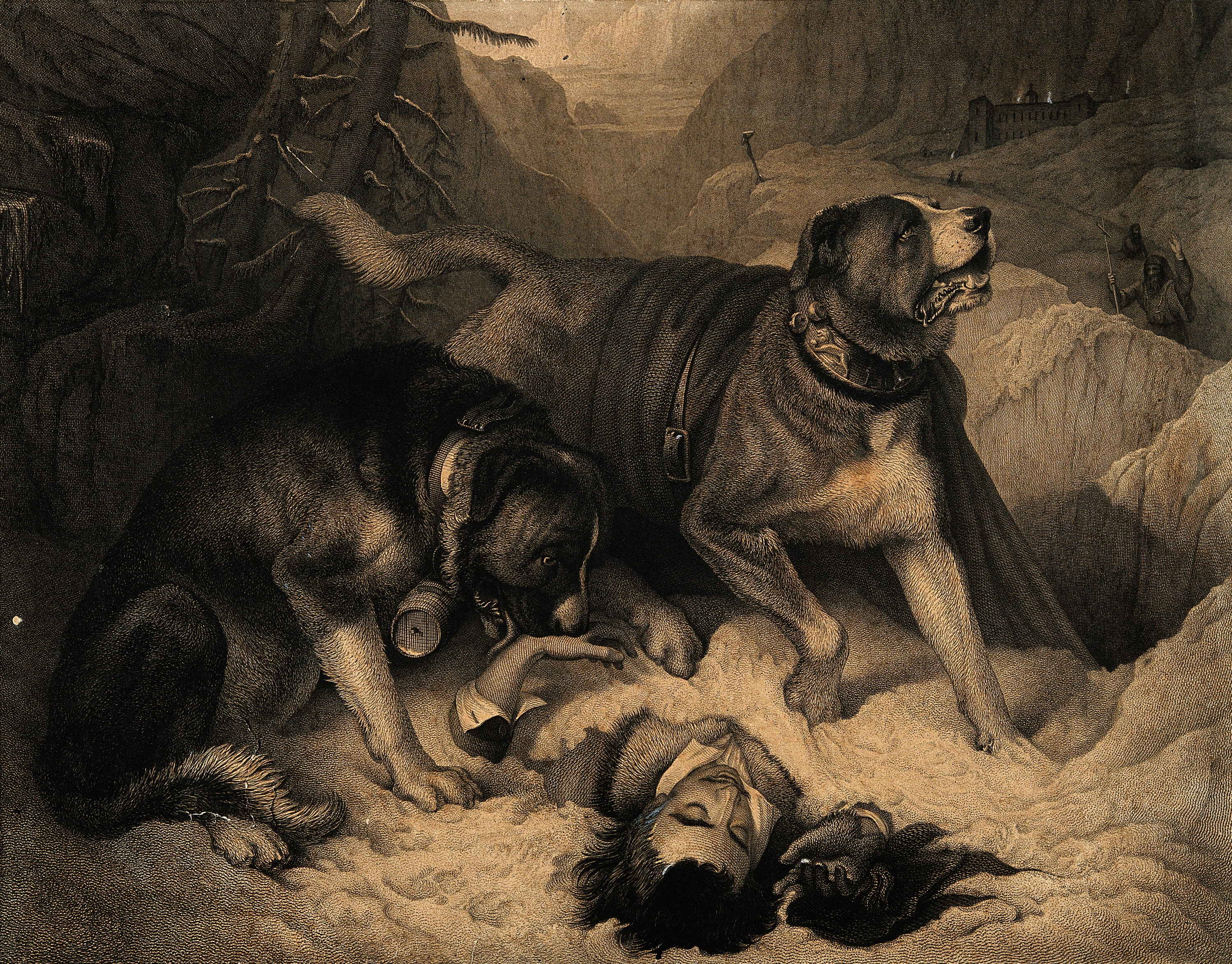 Two St. Bernard dogs with an avalanche victim, one tries to revive him while the other alerts the rescue party. Line engraving by J. Landseer, 1831, after E. Landseer. Iconographic Collections Keywords: John Landseer; Edwin Henry Landseer